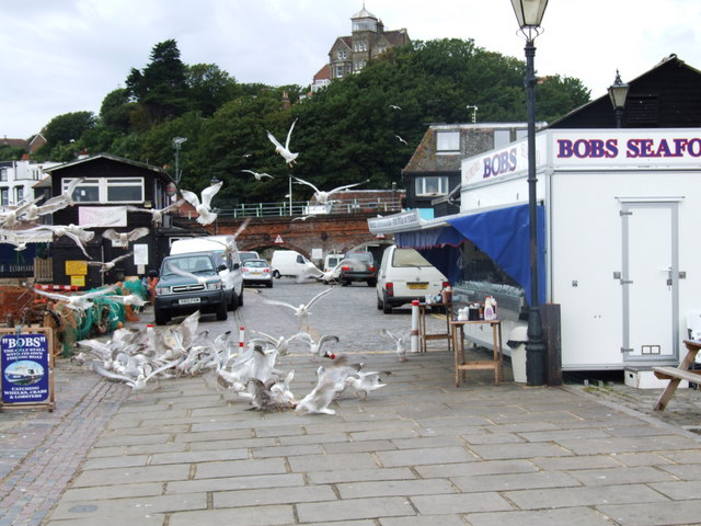 Seagulls at Folkestone Fishmarket